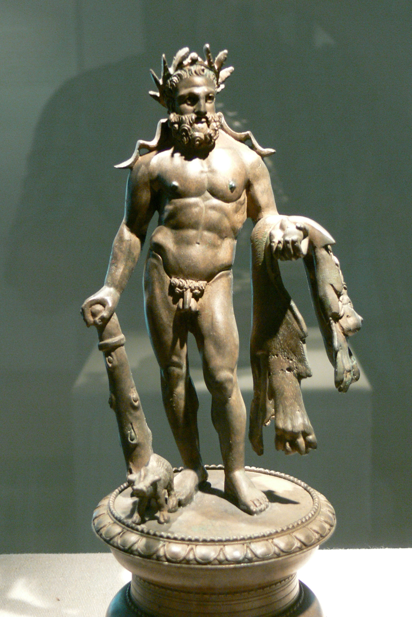 Weißenburg ( Bavaria ). Roman Museum: Bronze statue of Hercules ( 2nd/3rd century AD ).